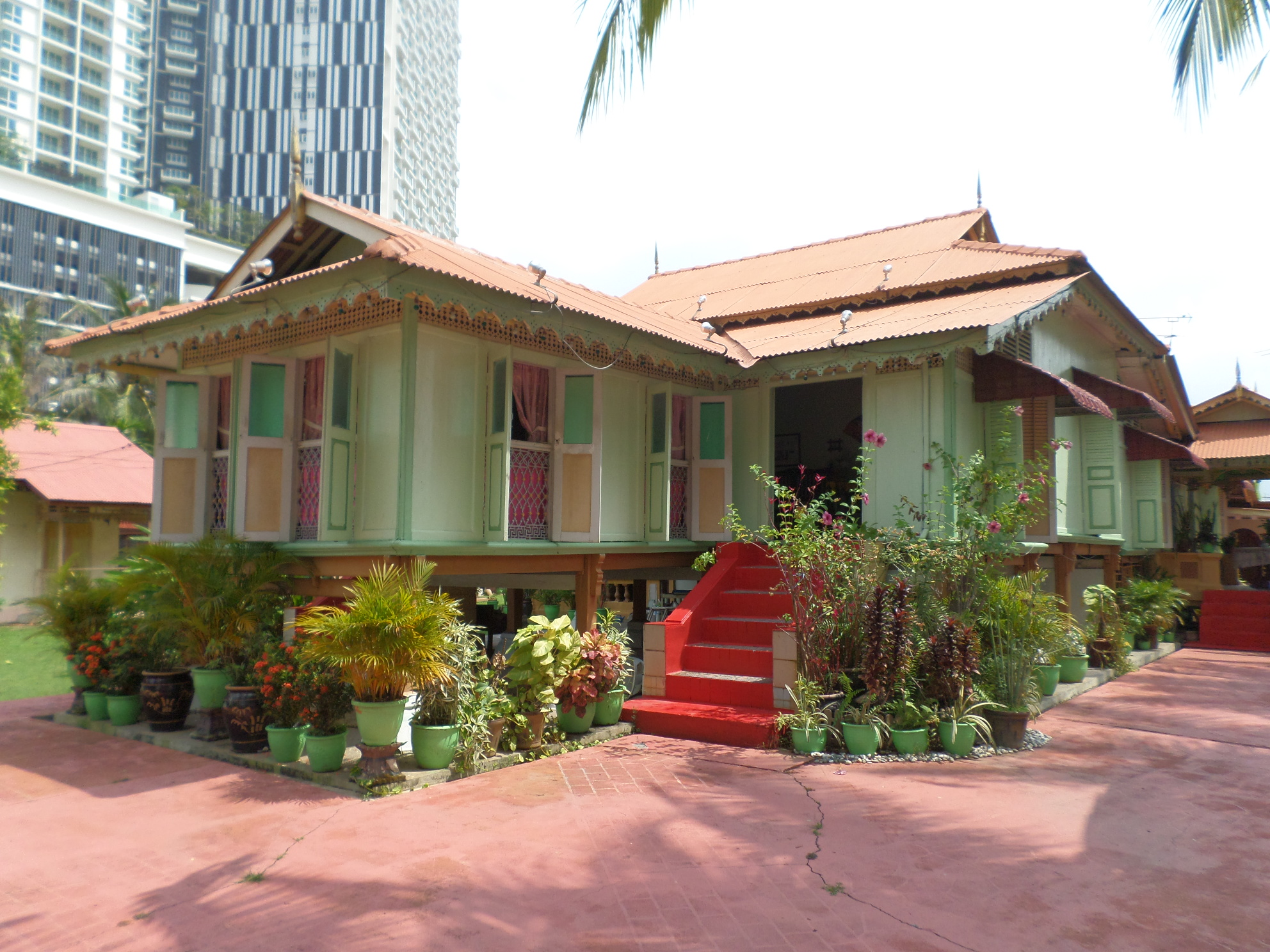 Villa Sentosa, Morten Village, Malacca City, Malacca, MalaysiaBahasa Melayu: Villa Sentosa, Kampung Morten, Bandaraya Melaka, Melaka, Malaysia